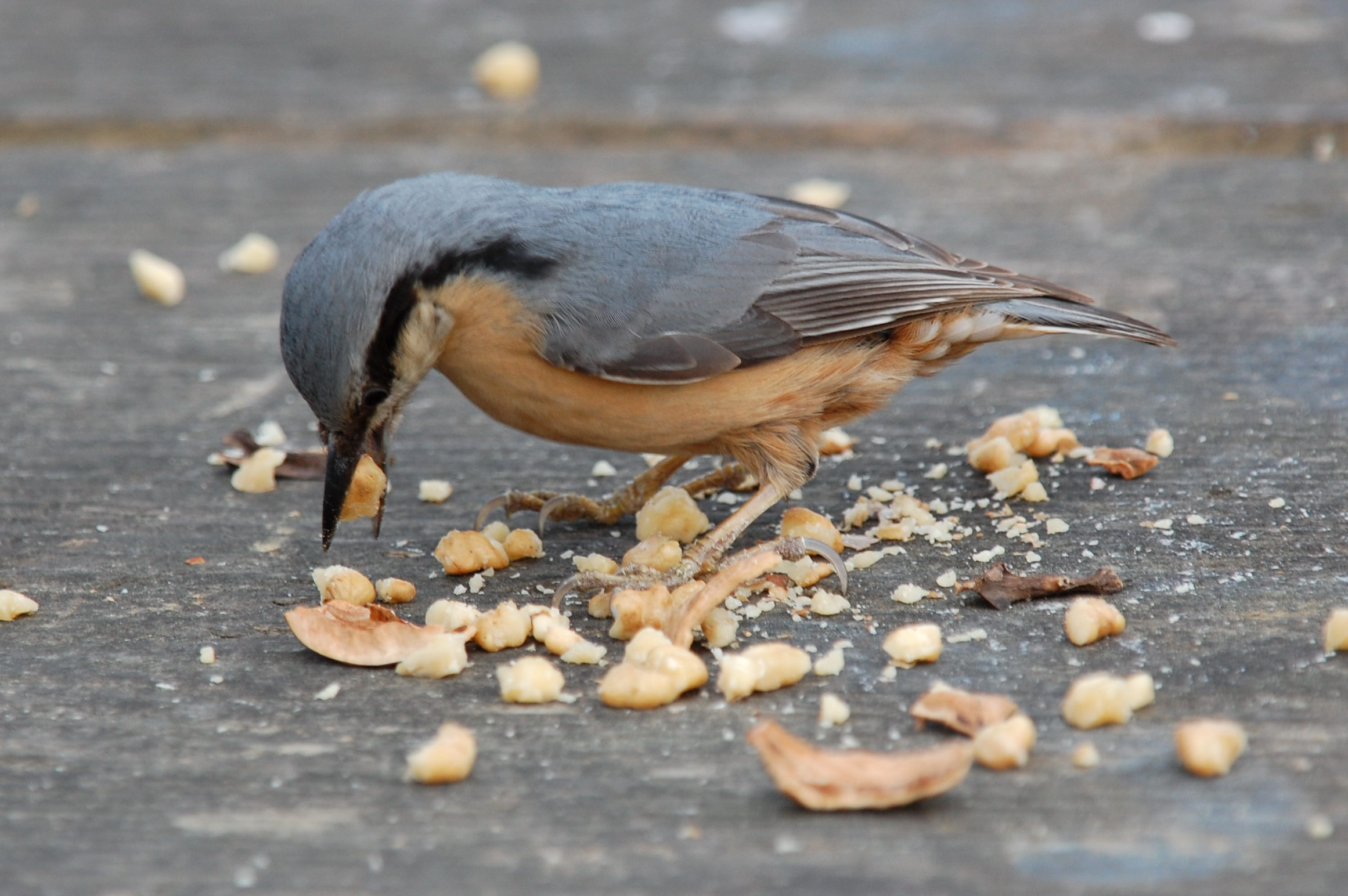 A Sitta europaea bird eating walnut bits. Goierri, Gipuzkoa, Basque Country.